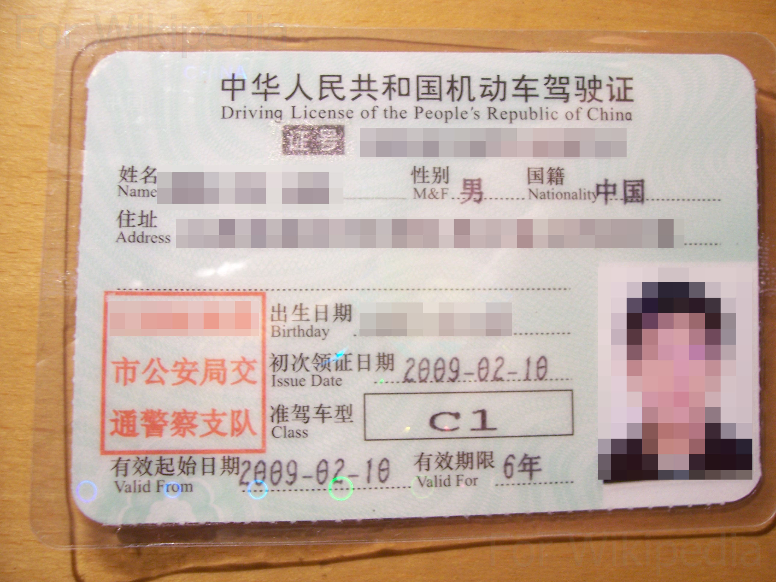 Driving Licence of the People's Republic of China. (C1) 中文（中国大陆）: 中华人民共和国机动车驾驶证。（C1）